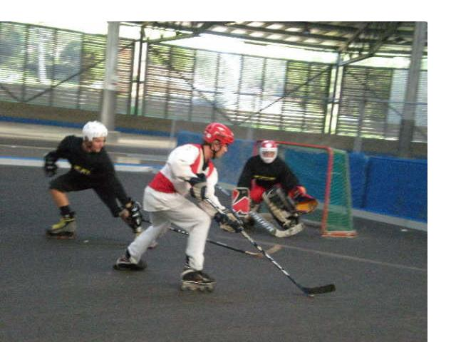 Streethockey in Gothenburg, Sweden at HÖGSBOHÖJDSHOCKEYSKAPEN or HHHS 2008. URL: HHHS.se